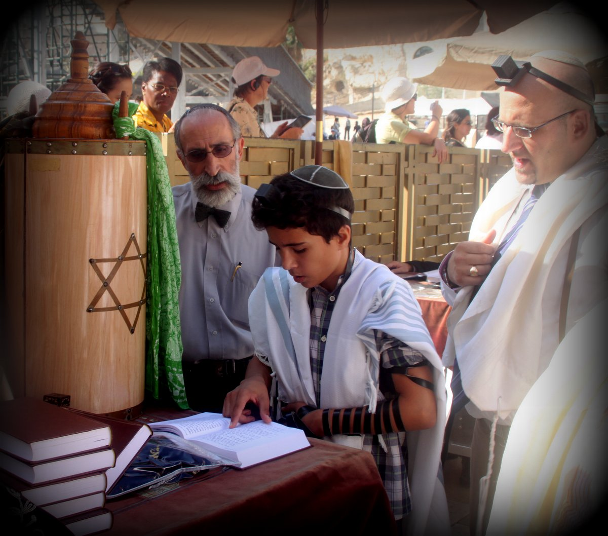 Old Jerusalem, Jewish boy reads Bar Mitzvah at the Western Wall